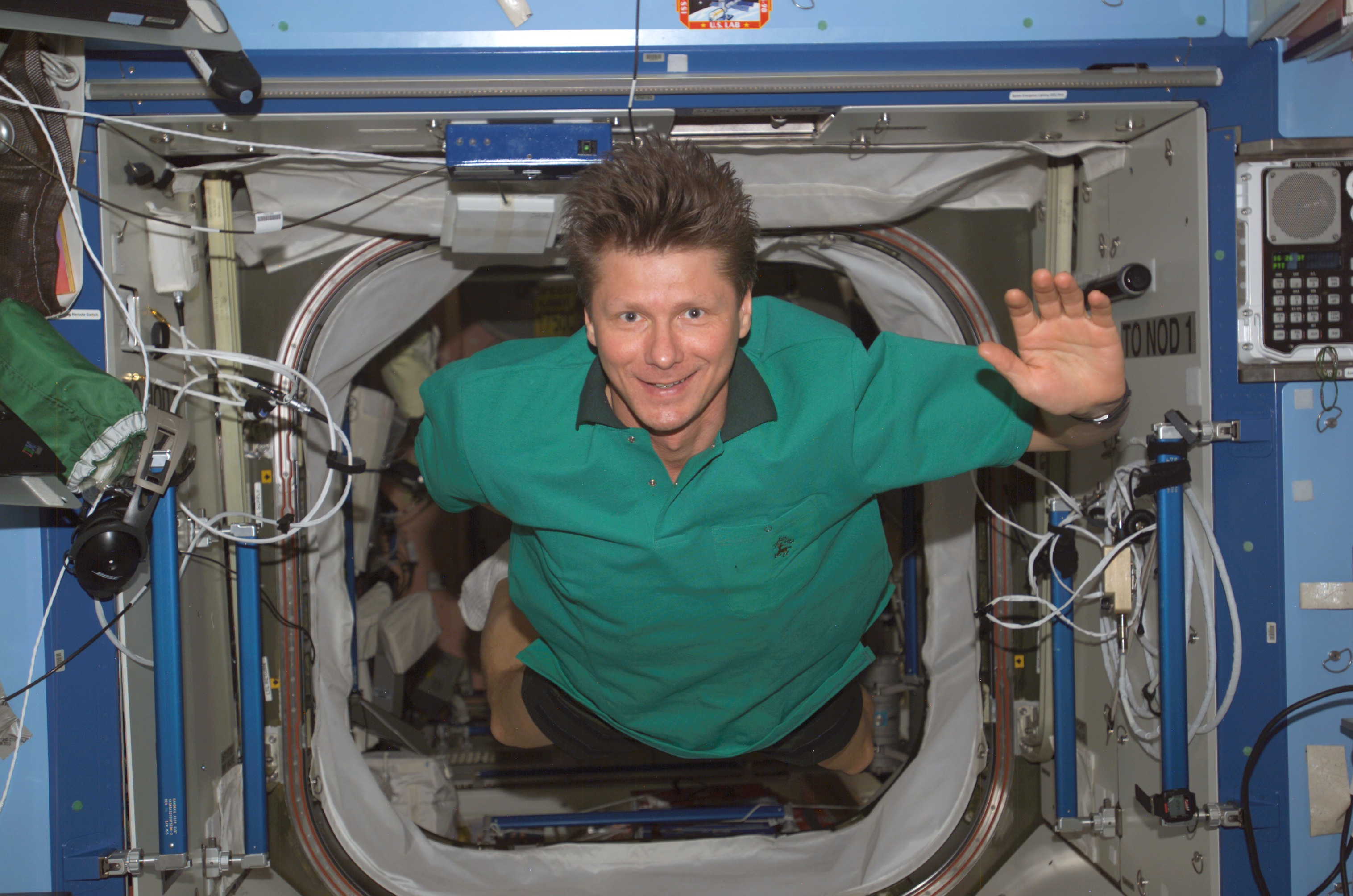 Cosmonaut Gennady I. Padalka, Expedition 9 commander representing Russia’s Federal Space Agency, floats in the Destiny laboratory of the International Space Station (ISS).